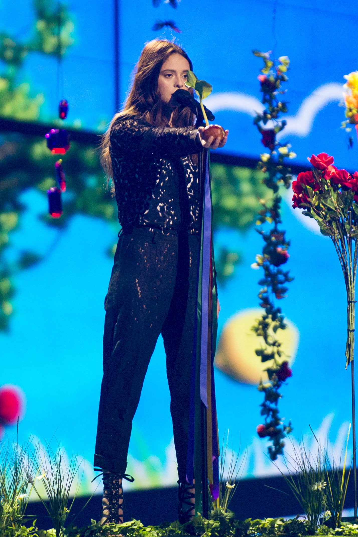 Francesca Michielin representing Italy with the song "No Degree Of Separation" during a rehearsal for "the Big Five" in the Eurovision Song Contest 2016 in Stockholm. (Help translate this text)